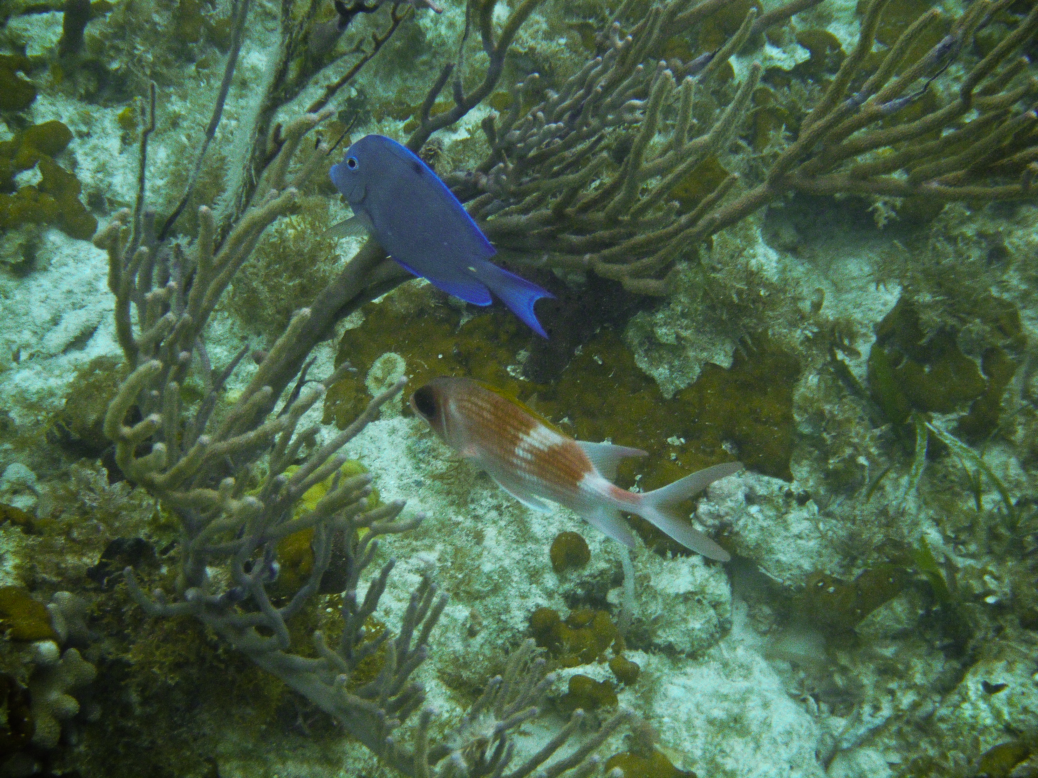 Taken February, 2011 in Princess Alexandra Land and Sea National Park, Providenciales, Turks and Caicos Islands ¹⁄₂₅₀ sec at f/4.8, ISO200, no flash.